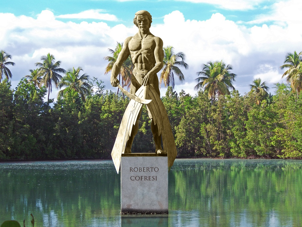 A statue of Roberto Cofresí, considered the last successful pirate of the Caribbean, located in Cabo Rojo, Puerto Rico.